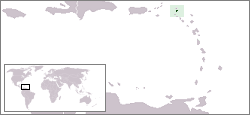 Localisation map of the Saint Martin island (France ; or Netherlands Antilles, Netherlands).